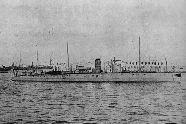 Japanese torpedo boat No.21, at Kobe (inferred).